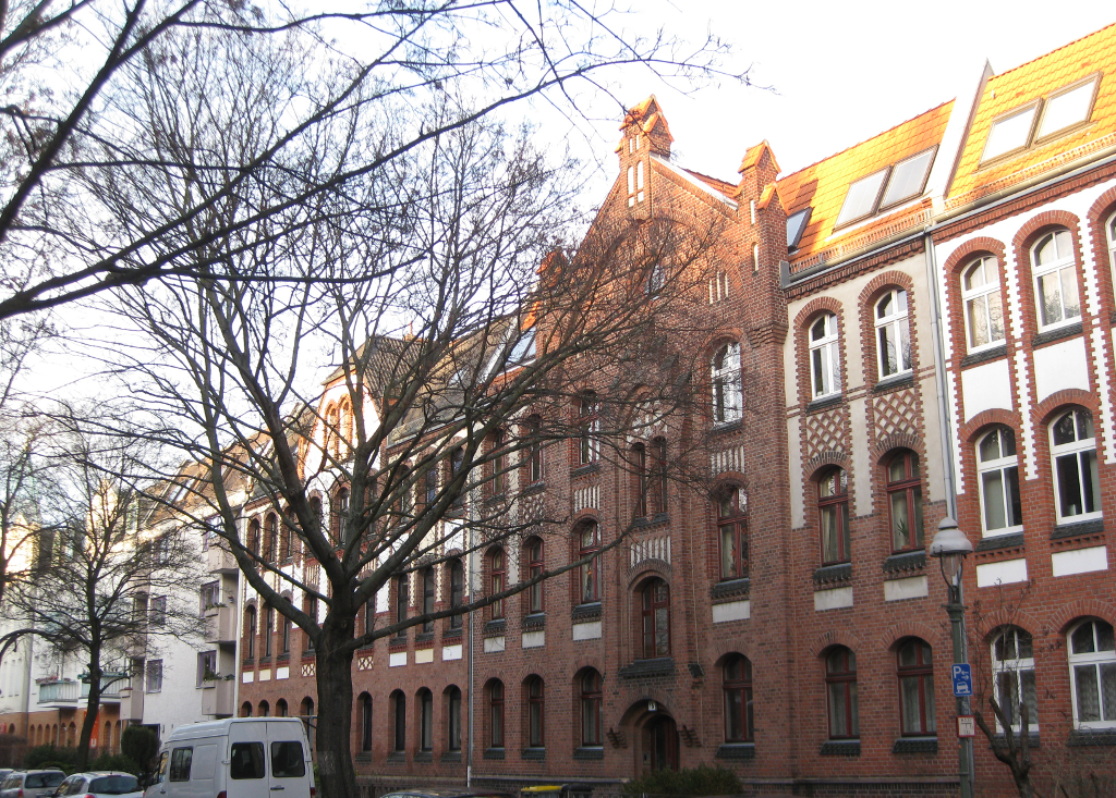 The facades of the house Räuschstraße 15 and 16.